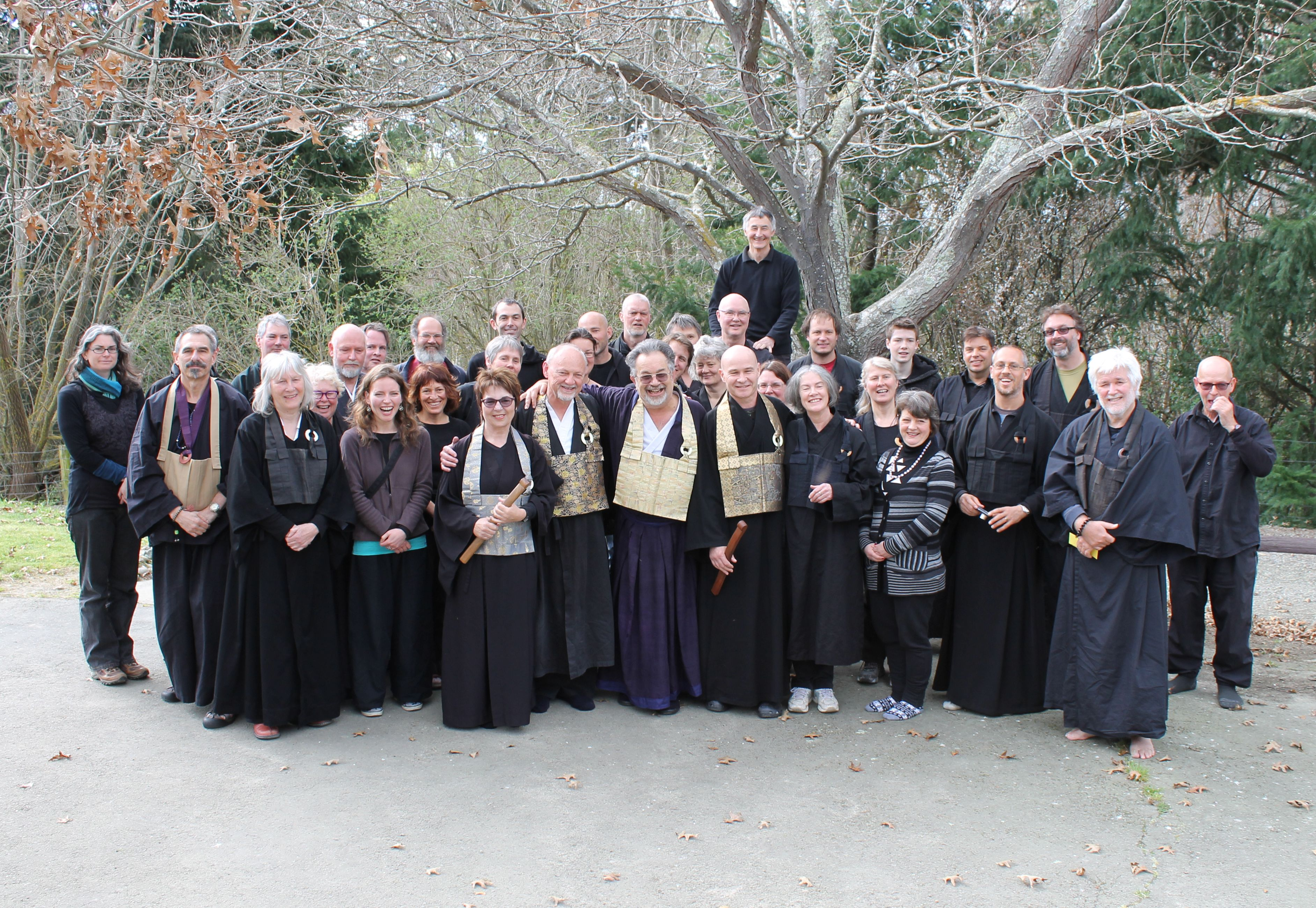 Sesshin in Waipara, 28 August to 2 September 2012